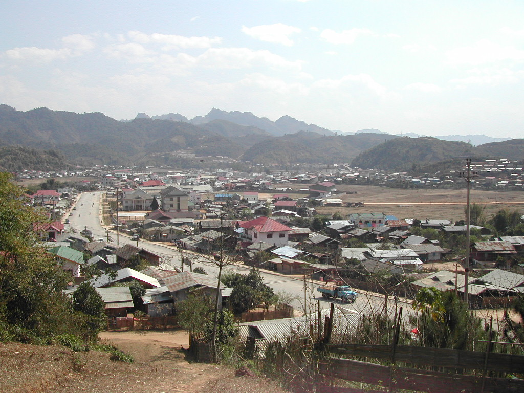 View over Sam Neua from a hilltop